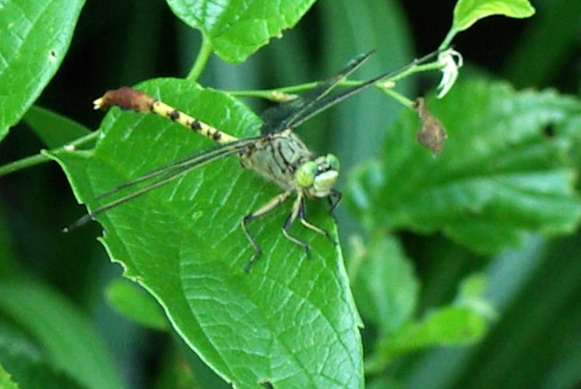 Jade Clubtail (Arigomphus submedianus) dragonfly in Breckenridge Park, Richardson, Texas.